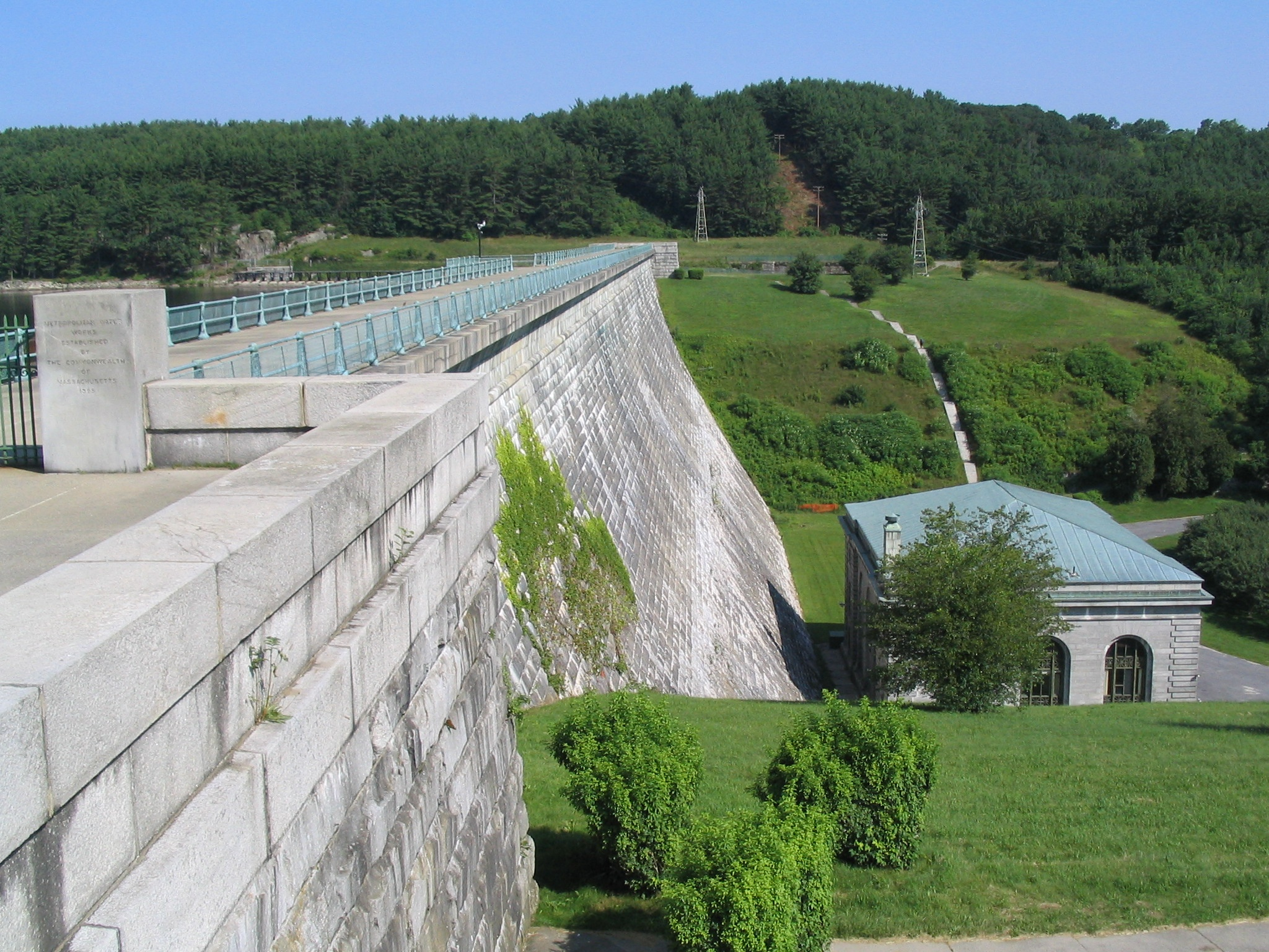 The Wachusett Dam, taken by Dale E. Martin, July 7, 2006, at the Wachusett Dam in Clinton, Massachusetts.